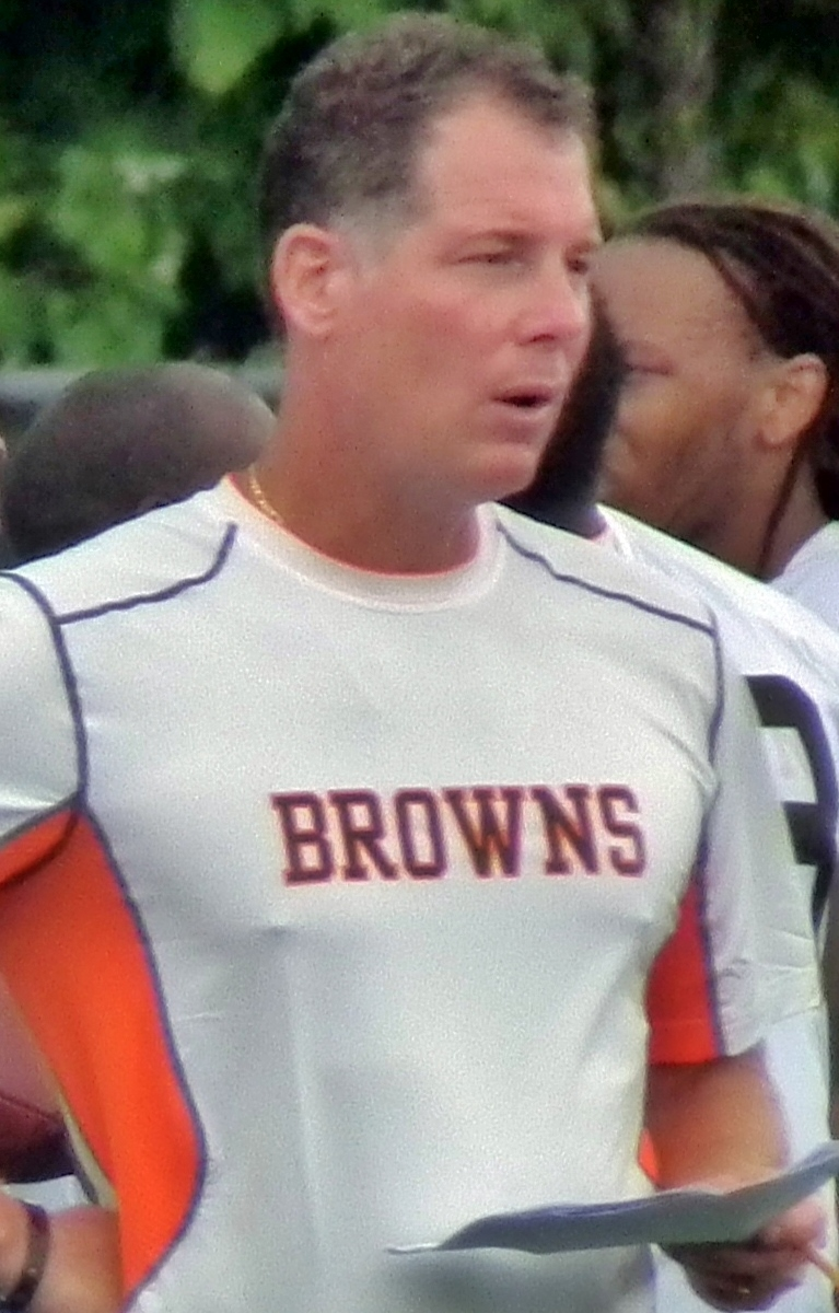 Cleveland Browns head coach Pat Shurmur during 2012 training camp